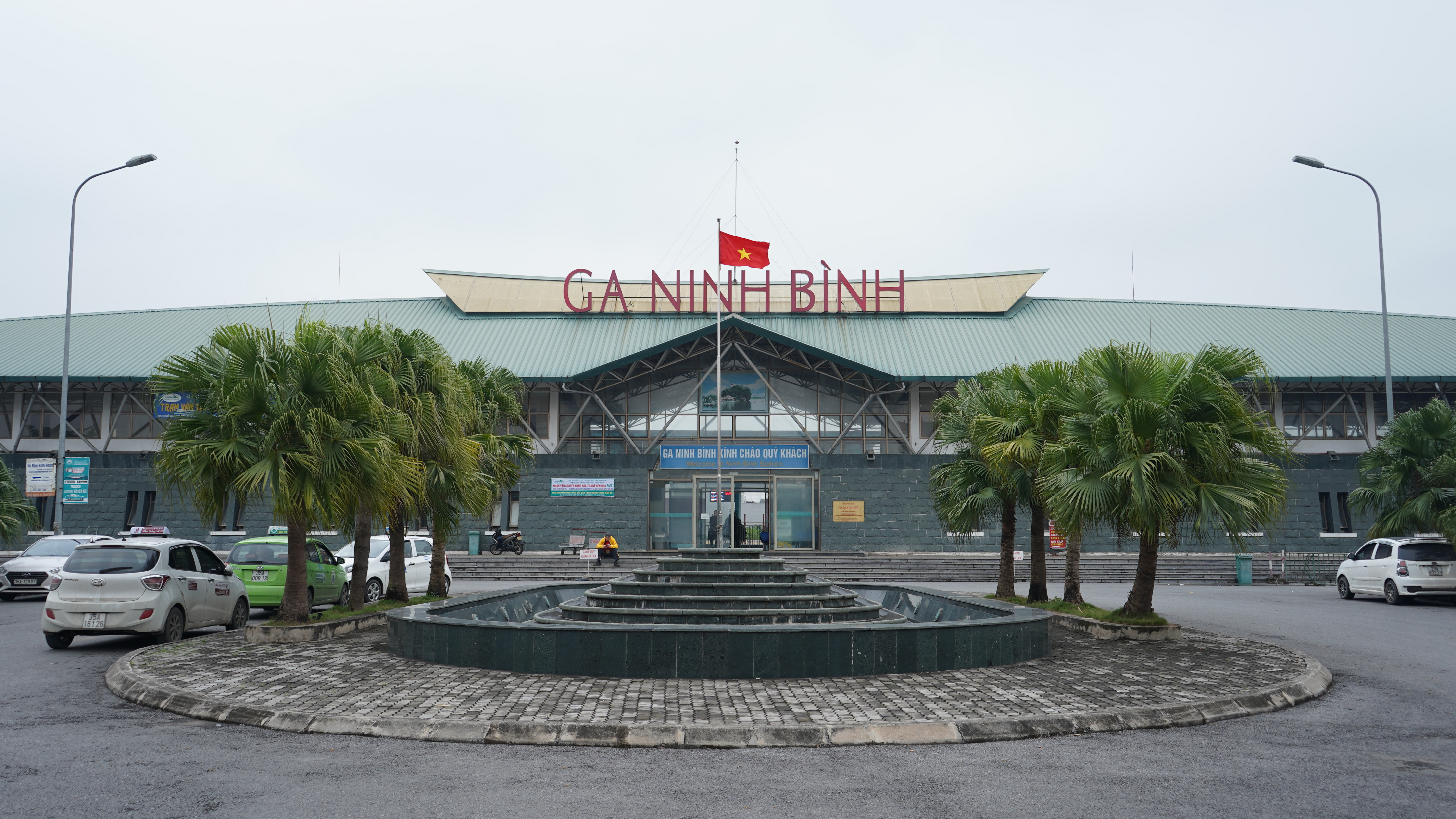 Ninh Binh Railway Station (Jan 19, 2020)